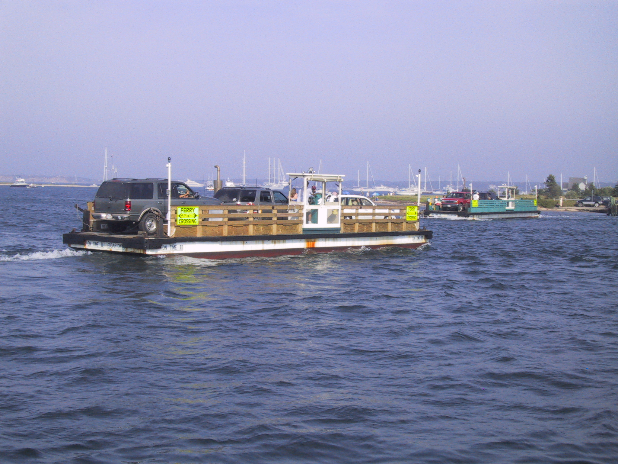 This is the Ontime or Chappy ferry. It connects Martha's Vineyard to Chappaquidick Island. The Ferry is seen in the movie "Jaws". A one-way trip takes 1-2 minutes.